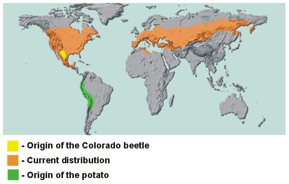 Kartoffelkäfer, Colorado potato beetle, Verbreitung, distribution